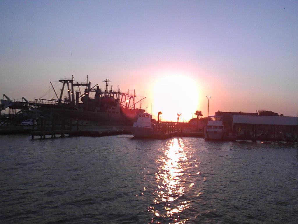 Texas A&M Maritime Academy small boat basin, with the gravity lifeboat davit trainer in the foreground and USNS Cape Gibson in the background.